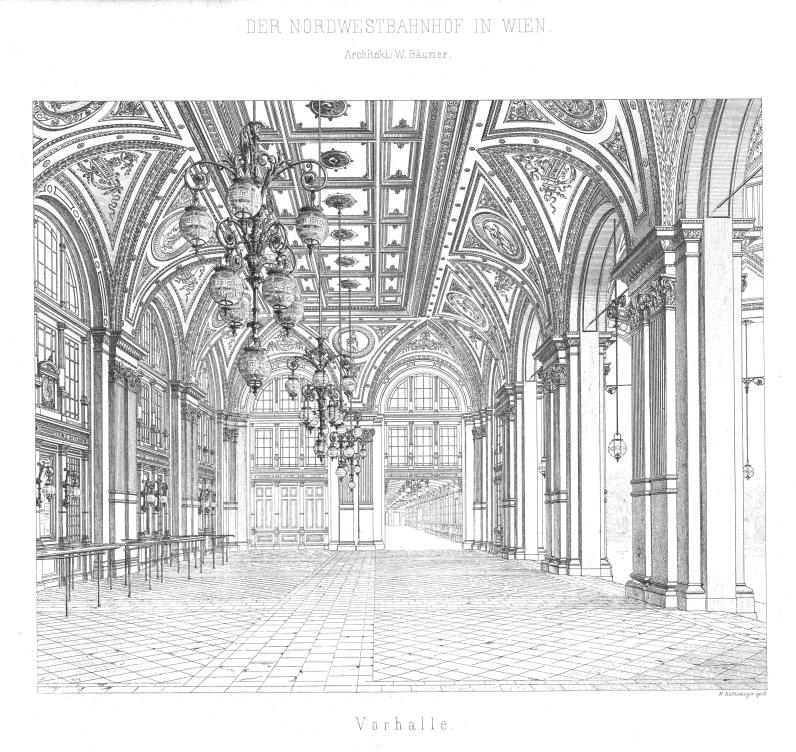 Plan of the Nordwestbahnhof in Vienna.